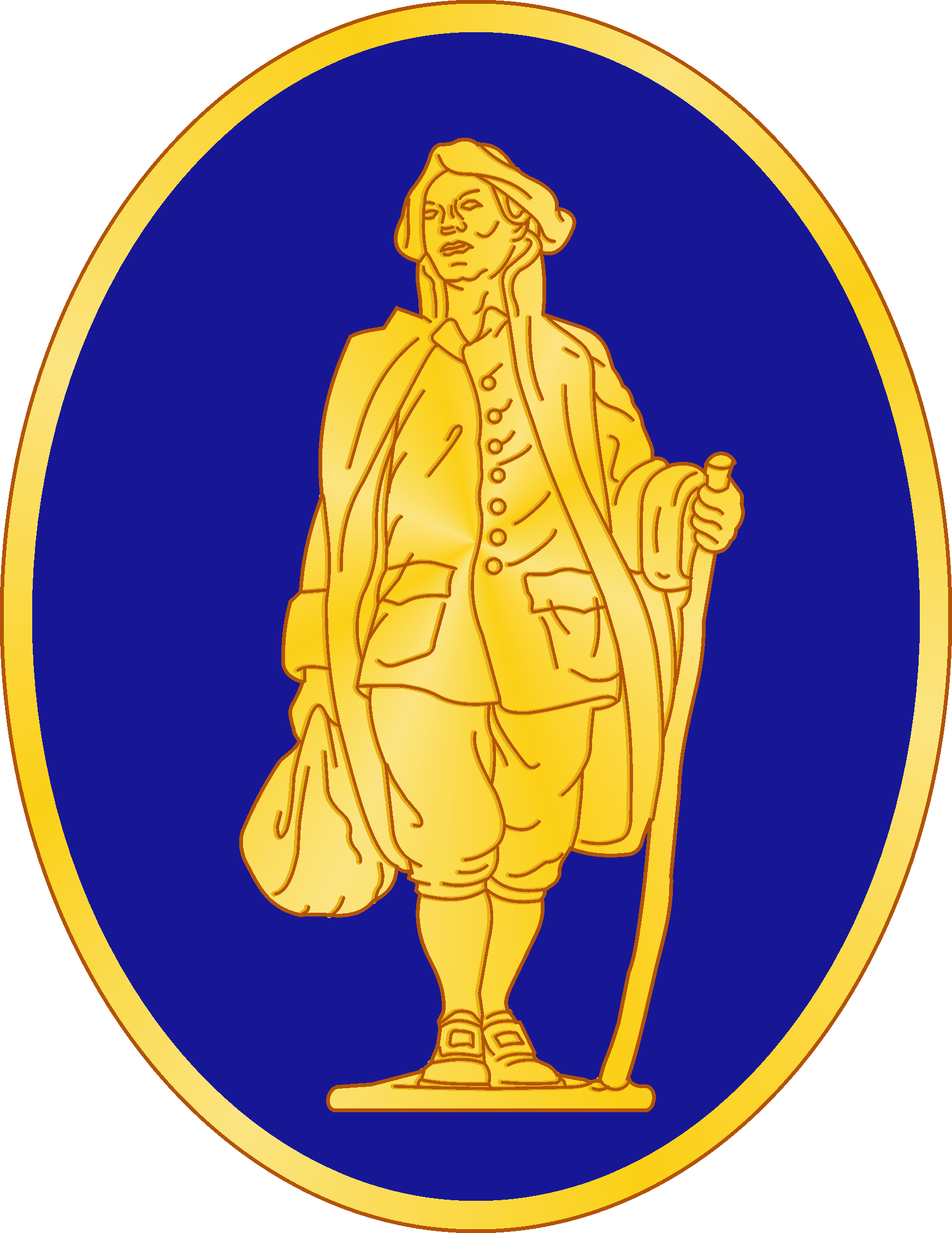 111th Infantry Regiment Distinctive Unit Insignia